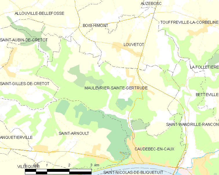 Map of French municipality Maulévrier-Sainte-Gertrude